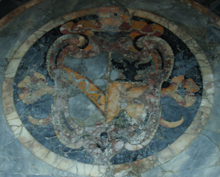 Arms of Cimini in the Cimini chapel in Sant Antonio dei Portuguese in Rione Colonna in Rome